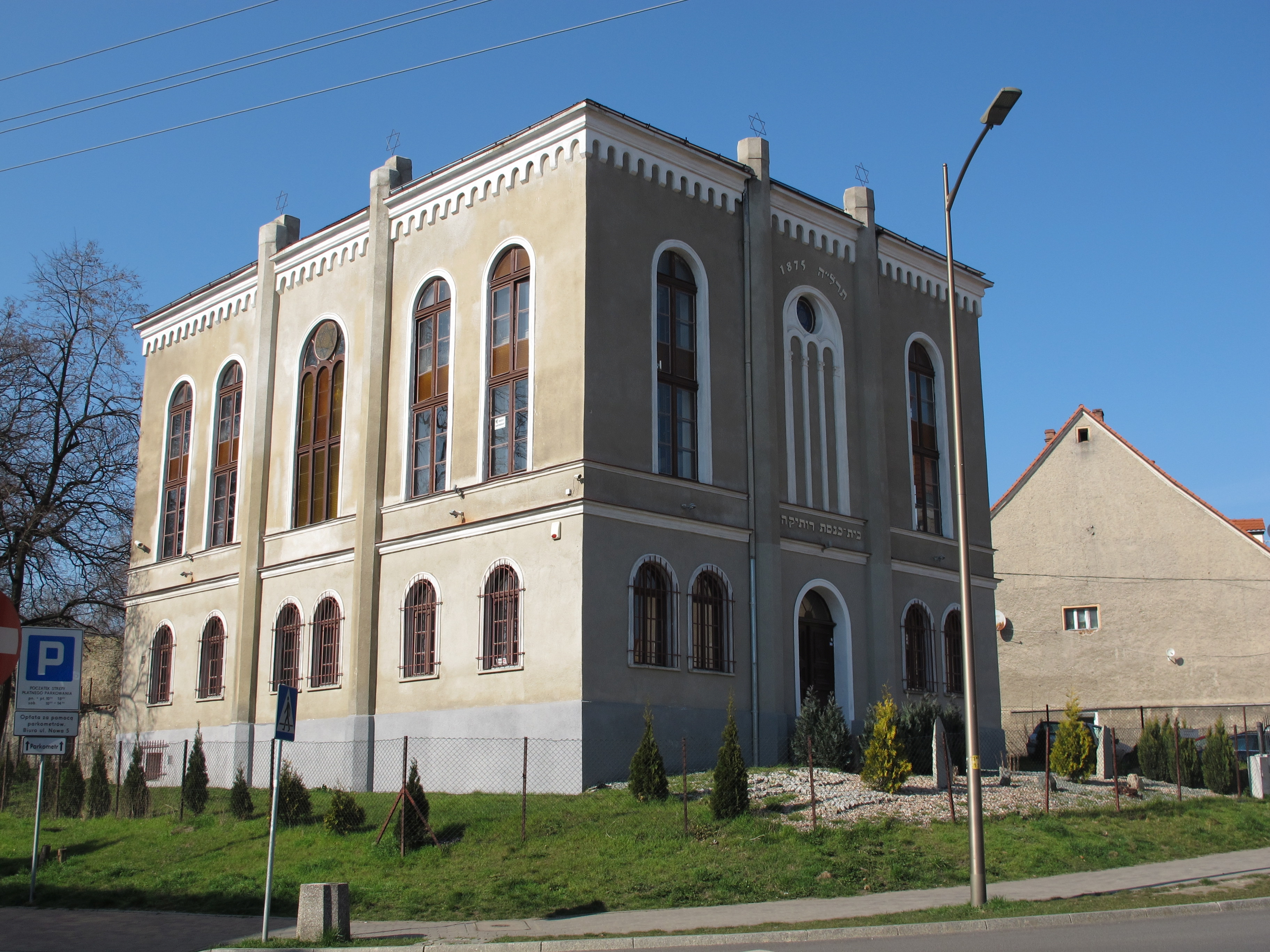 Dzierżoniów - synagogue